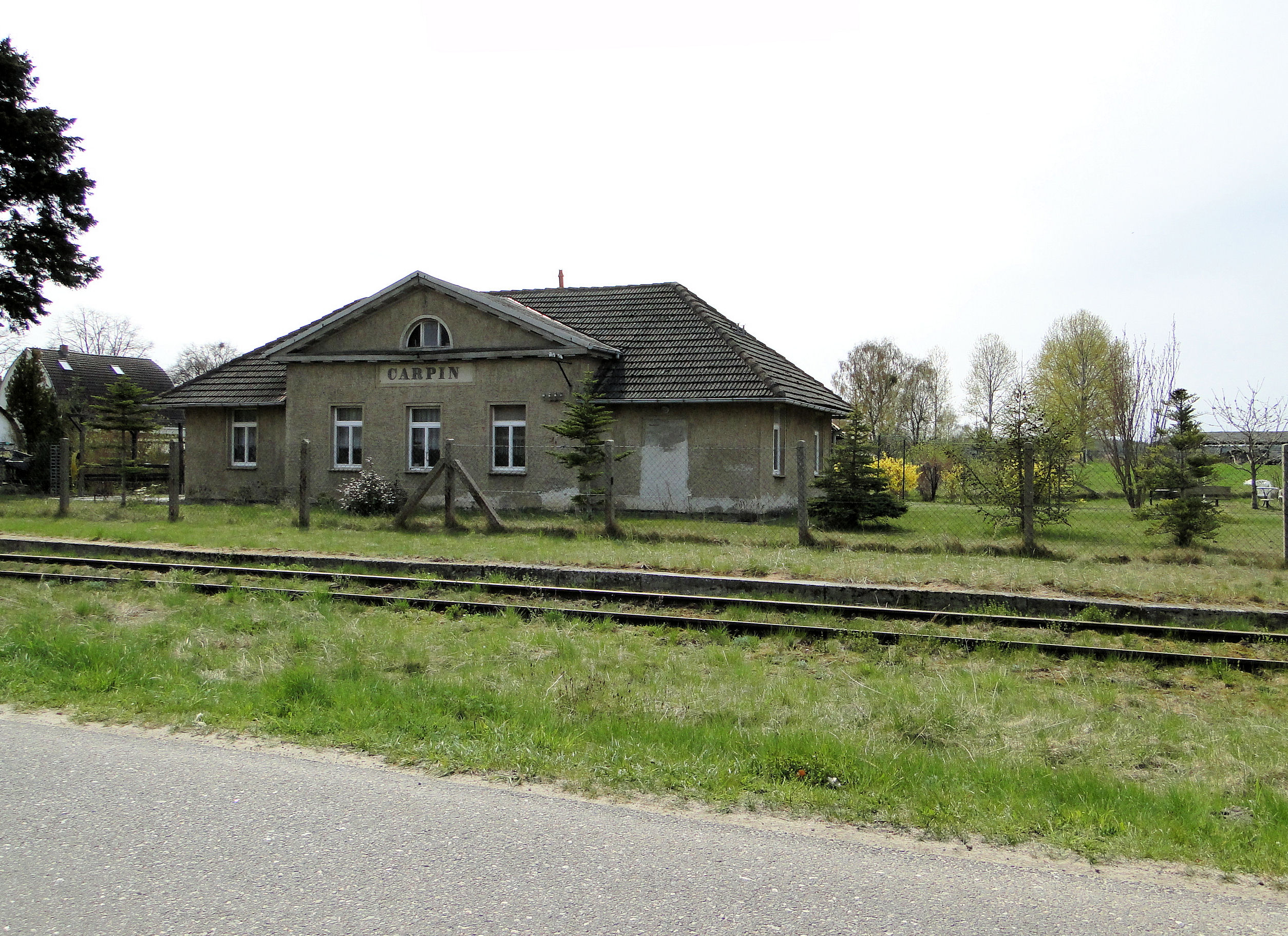 Former train station building in Carpin, disctrict Mecklenburg-Strelitz, Mecklenburg-Vorpommern, Germany